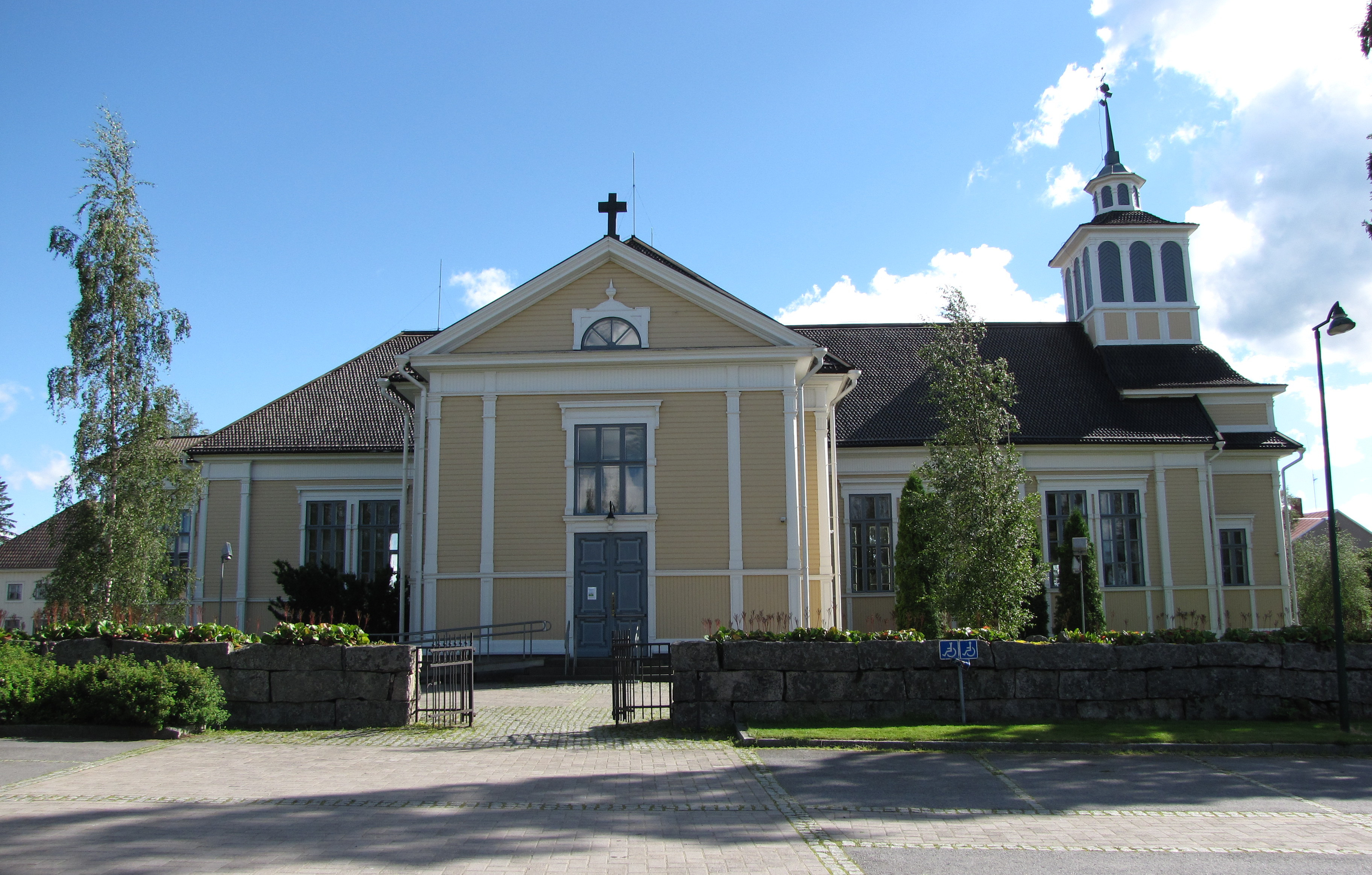 Jalasjärvi church in Jalasjärvi, Finland.